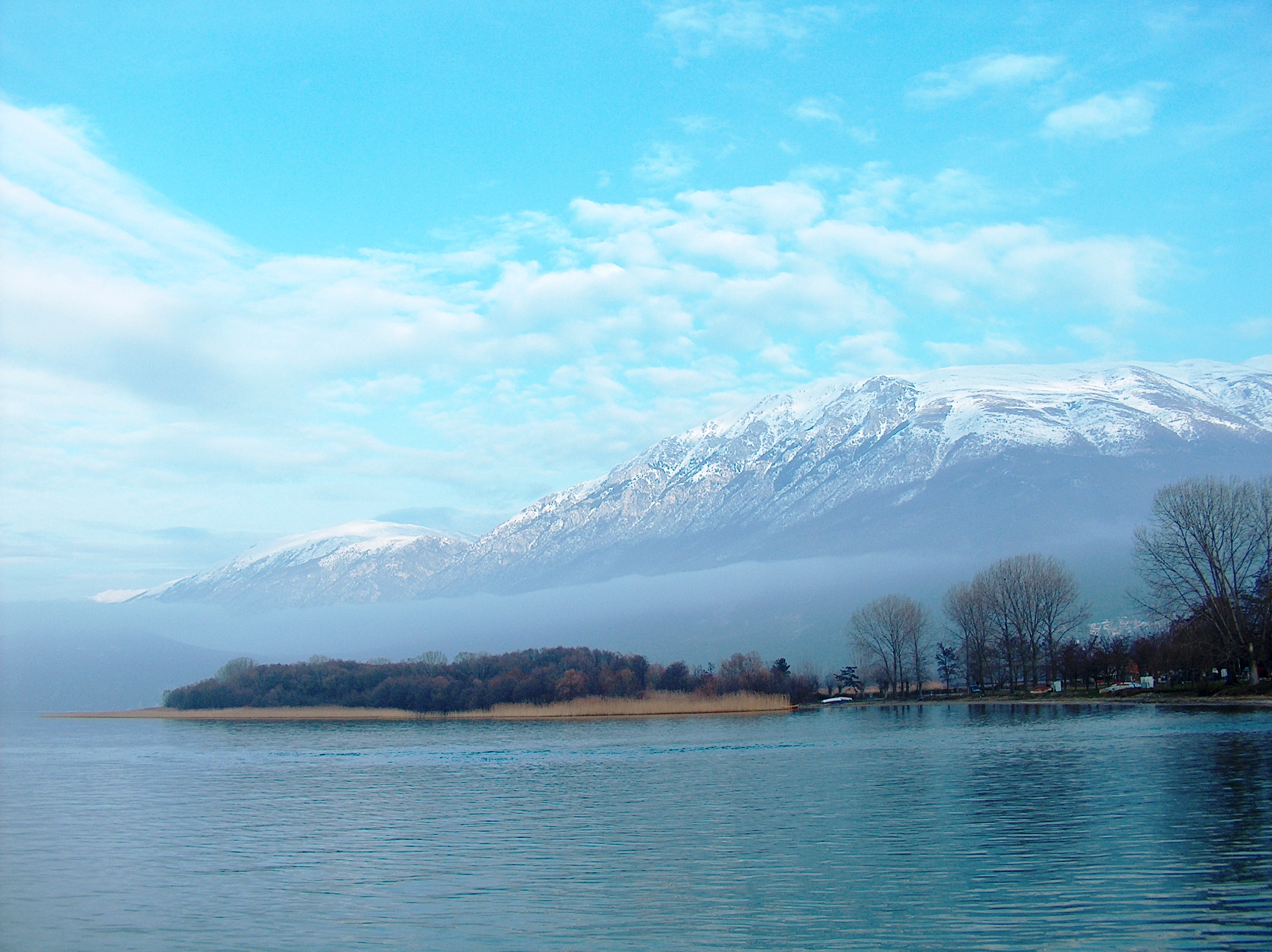 Ohrid Lake and Galichitsa Mountain near St. Naum Monastery, Republic of Macedonia